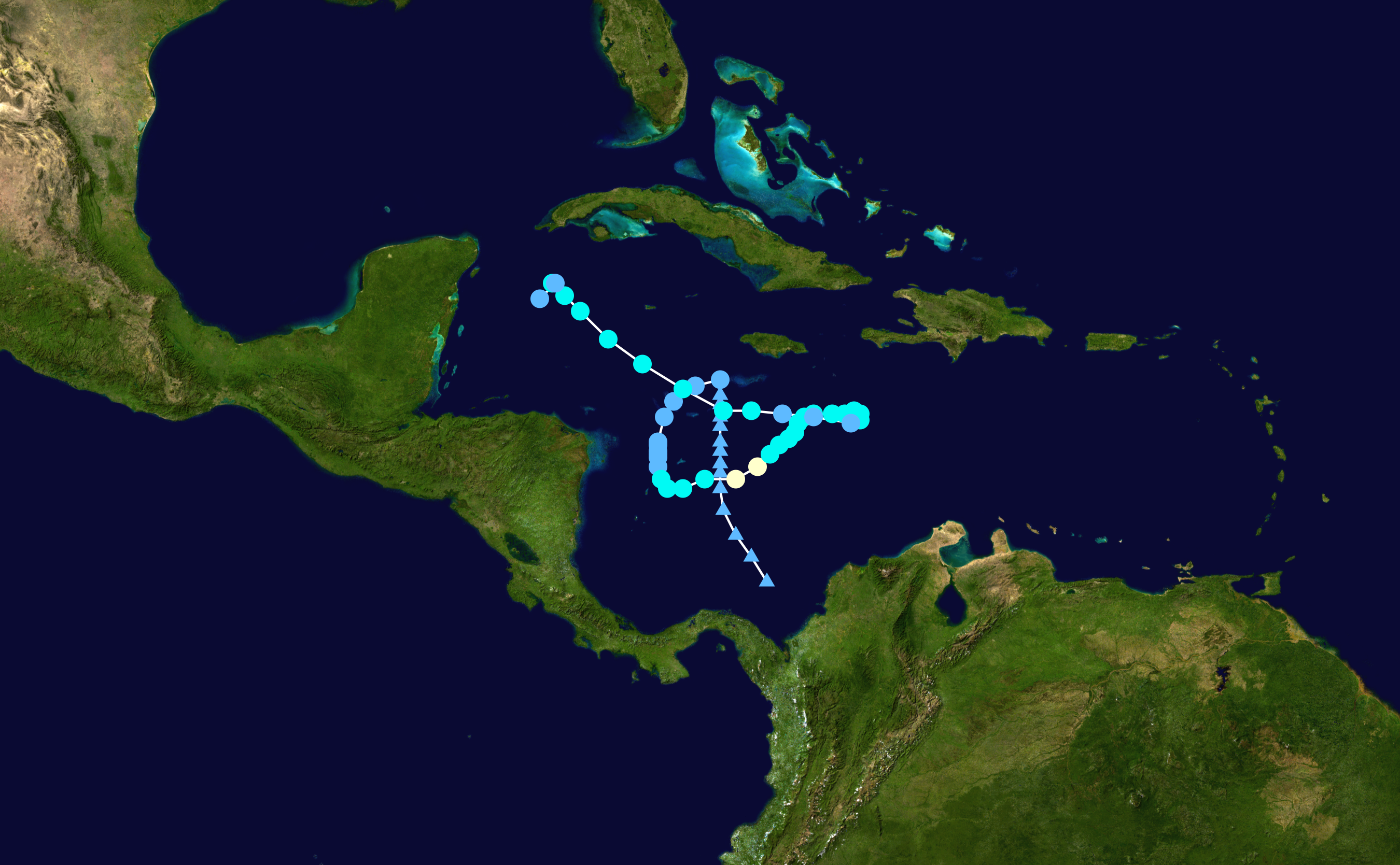 Track map of Hurricane Marco of the 1996 Atlantic hurricane season. The points show the location of the storm at 6-hour intervals. The colour represents the storm's maximum sustained wind speeds as classified in the Saffir–Simpson scale (see below), and the shape of the data points represent the nature of the storm, according to the legend below. Saffir–Simpson scale Tropical depression≤38 mph≤62 km/h Category 3111–129 mph178–208 km/h Tropical storm39–73 mph63–118 km/h Category 4130–156 mph209–251 km/h Category 174–95 mph119–153 km/h Category 5≥157 mph≥252 km/h Category 296–110 mph154–177 km/h Unknown Storm type Tropical cyclone Subtropical cyclone Extratropical cyclone / Remnant low / Tropical disturbance / Monsoon depression